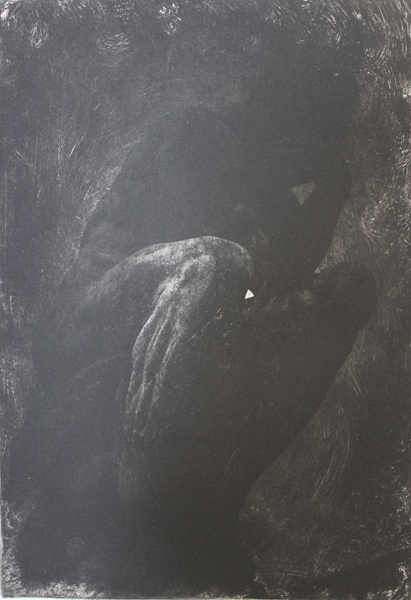 "The Rodin Garden Sculptures" Plates created 1993-1994 Printing performed 1995-1999 Musee Rodin, Paris since 2000 Photogravure and monotype techniques on copper plates Prints: 40 cm X 50 cm (approximately) Copper Plates: 21 cm X 30 cm